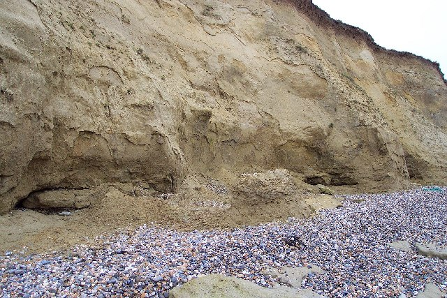 The eroding cliffs of Reculver Country Park. The soft Tertiary sandstones are easily undercut by eroding waves and the cliff collapses on to the shingle beach composed mainly of flint pebbles transported here by longshore drift.